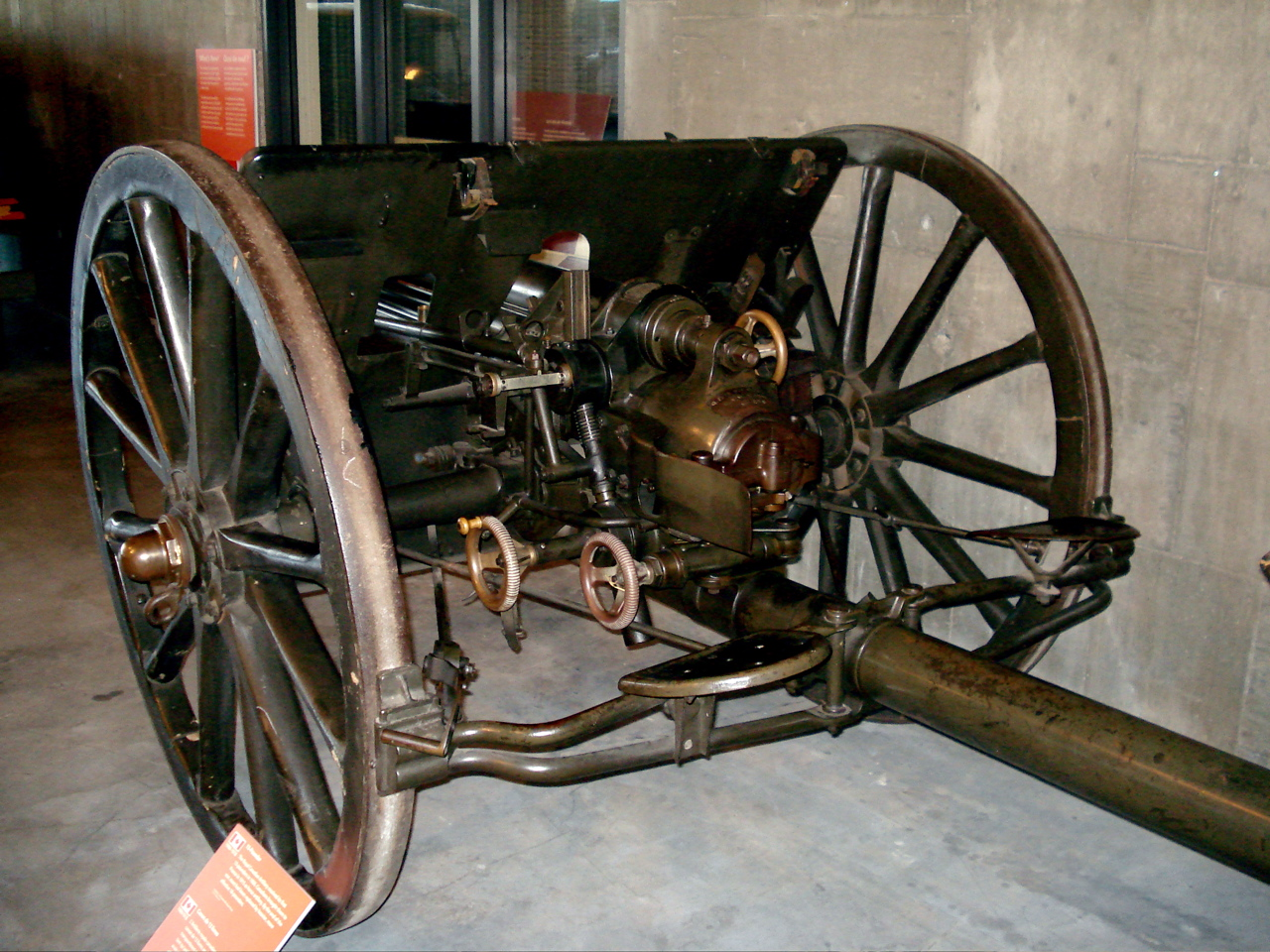 British QF 13 pounder gun at the Canadian War Museum in Ottawa.